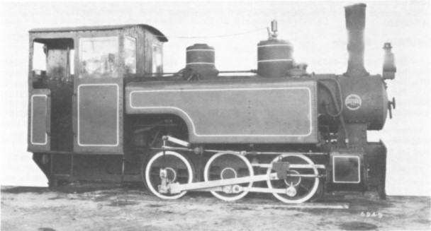 Baldwin No 50788 of December 1918 had 11in by 16in cylinders and 2ft 7½in wheels and was assigned to the Dehri-Rohtas Railway by the War Department. On this official photograph the tracks on which the locomotive stands are just two lengths of timber. This originally 2ft 5.53in gauge 0‑6‑0 tender locomotive (Baldwin 50788 intended for the Alapeff Mining Company in Russia was rebuilt by Baldwin to a 0‑6‑0 tank and then despatched in December 1918 to the War Department in India, being assigned to the Dehri-Rhotas Railway. Its sister locomotive No 50789 was also despatched in December 1918 to the War Department in India and subsequently assigned to the Bengal Provincial Railway.